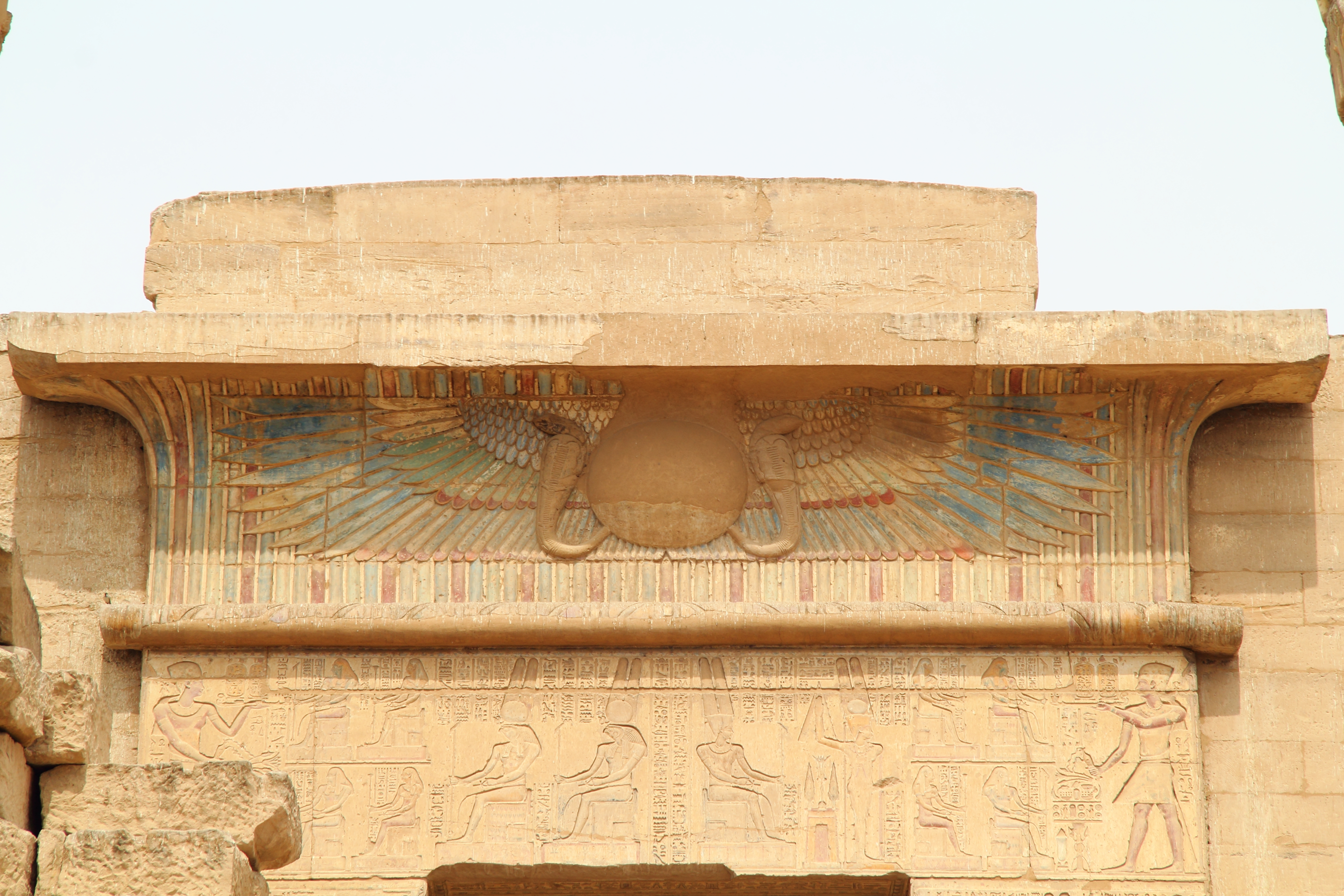 Medinet Habu (location), temple complex close to Luxor in Upper Egypt